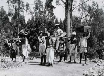 An improvised Palanquin called dholie used going to Kodaikanal, which was essentially a chair held between two bamboo poles, which the local people carried on their shoulders.